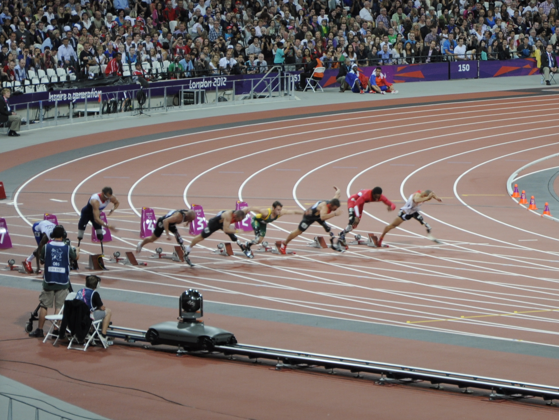 London 2012 Paralympics - start of the T42 100 m final.